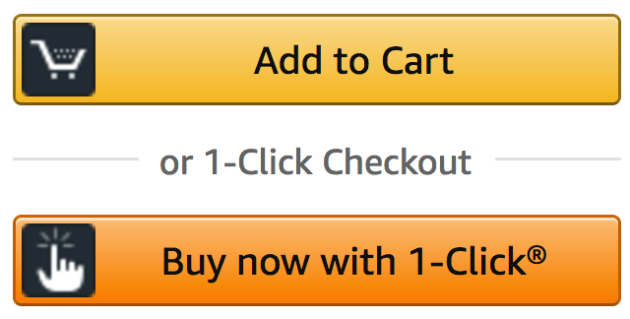 A detail of an Amazon product page, showing options to either add the item to one's cart, or buy now.